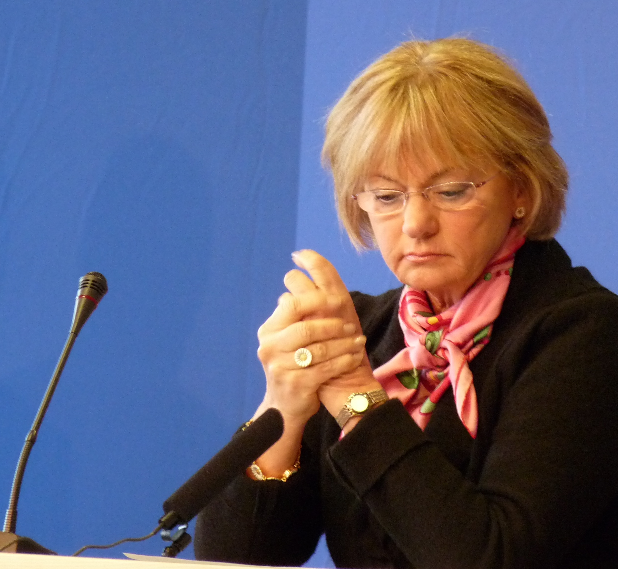 Chairman of the Danish People's Party, MP Pia Kjærsgaard. At a new year's conference held by the Danish Social Liberal Party in Nyborg, 2009.